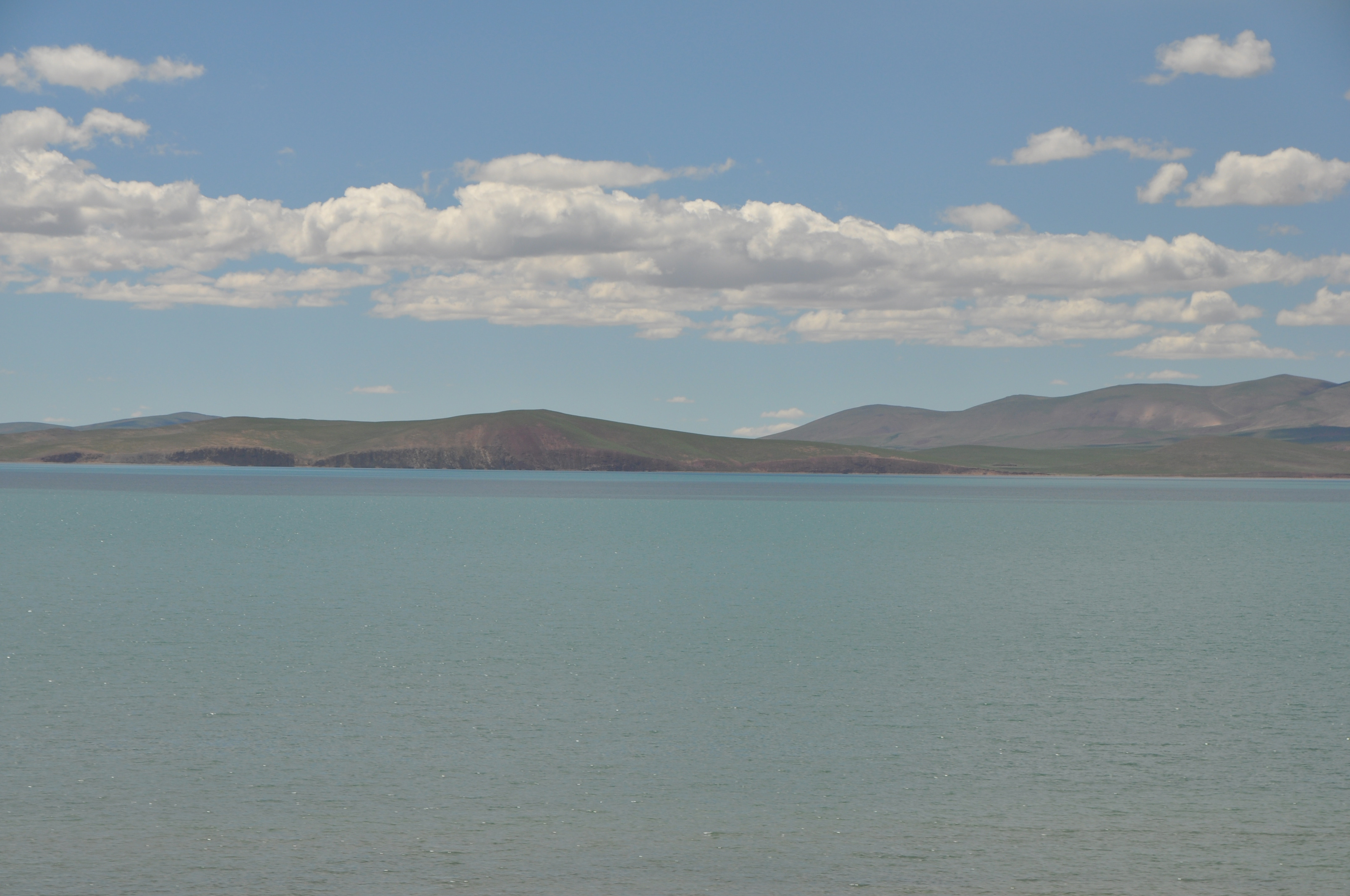 Tsonag Lake, Tibet, viewed from Qingzang Railway Train.